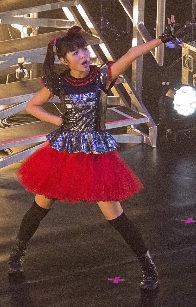 Moa Kikuchi as MOAMETAL perfoming with BABYMETAL live in London, November 2014.